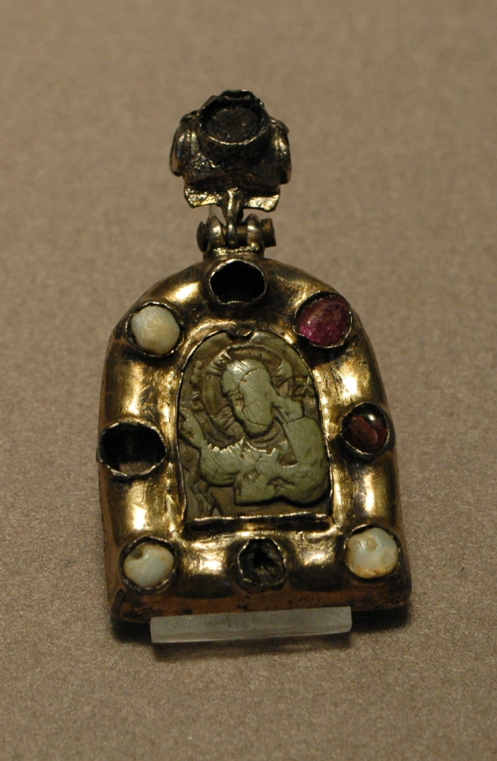 Pendant: Christ blessing. Byzantine Empire, 12th–13th centuries. Soapstone, gilded silver, pearls, red glass and rubies.